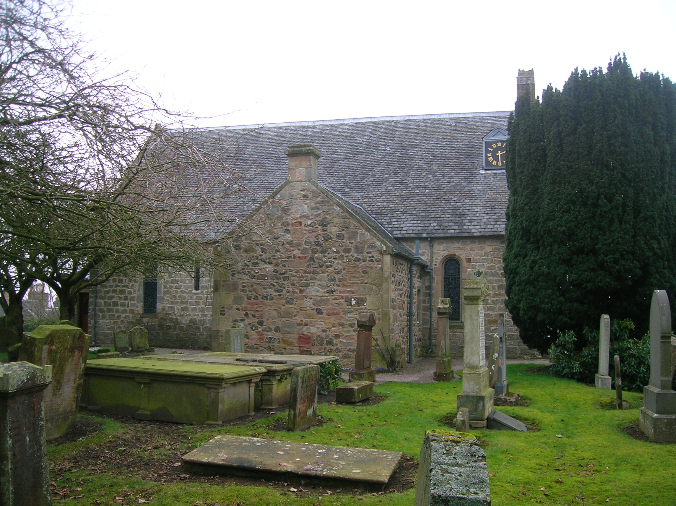 Symington Church and porch. South Ayrshire, Scotland.